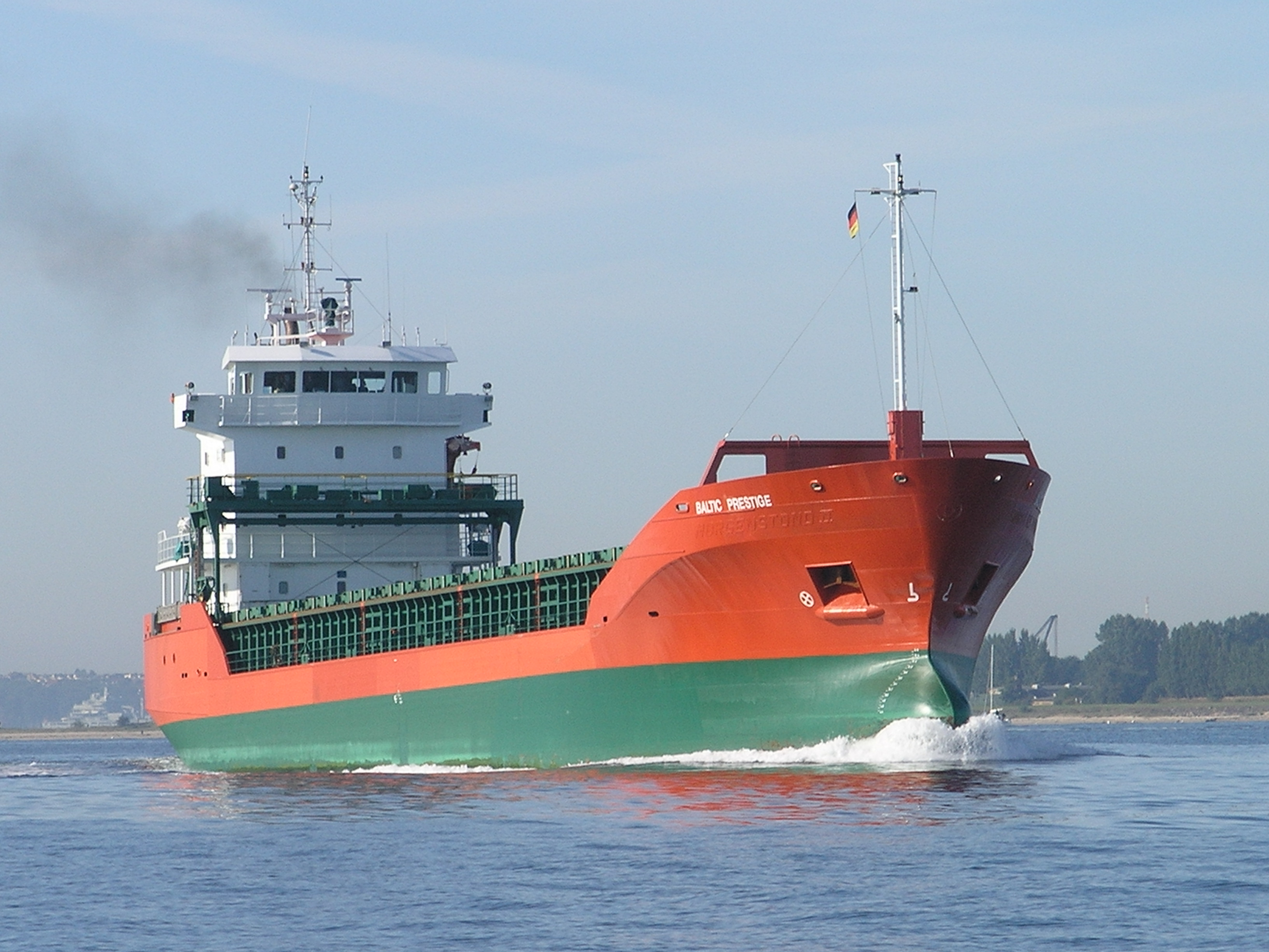 Baltic Prestige